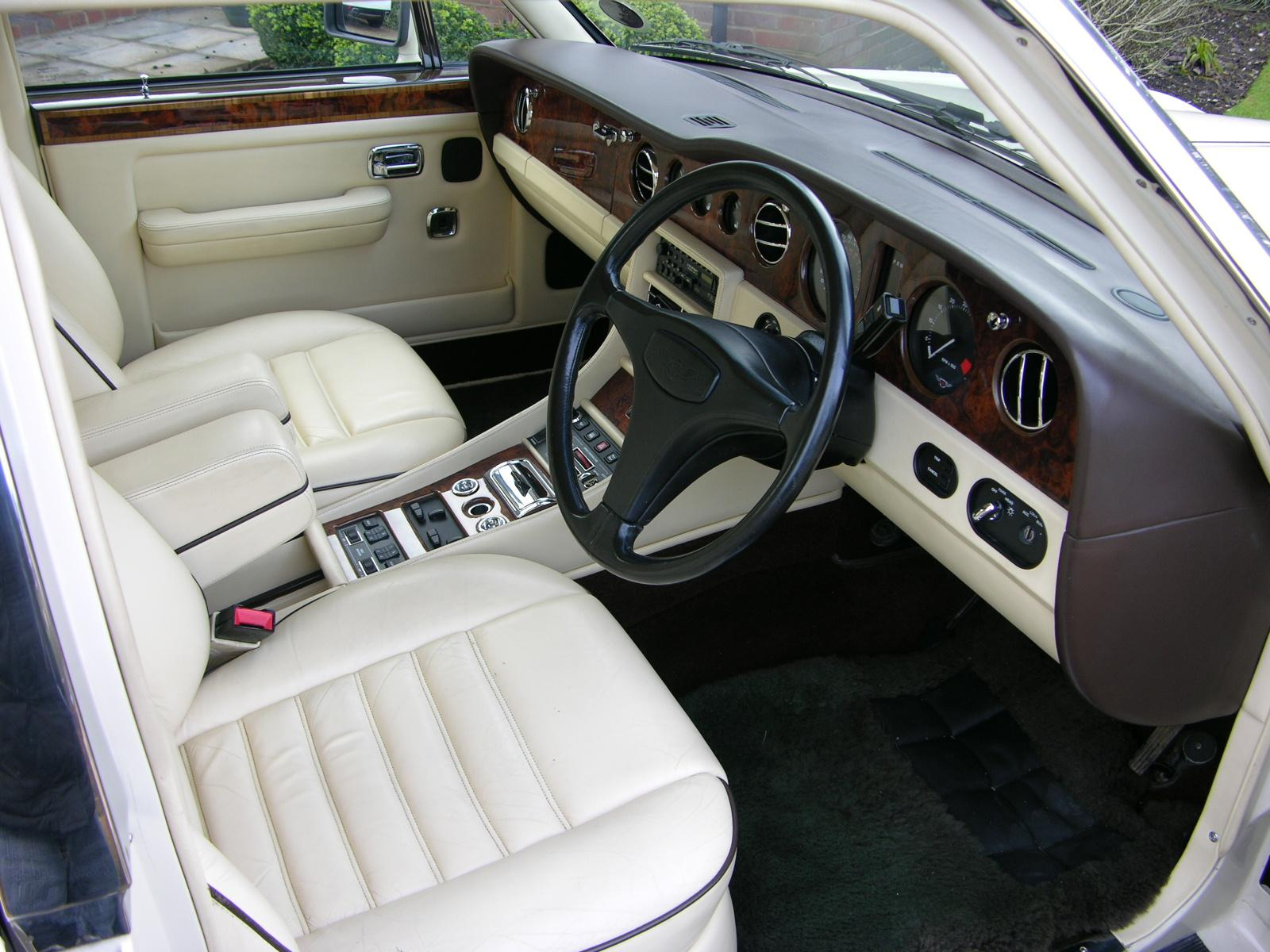 1990 Bentley Turbo R